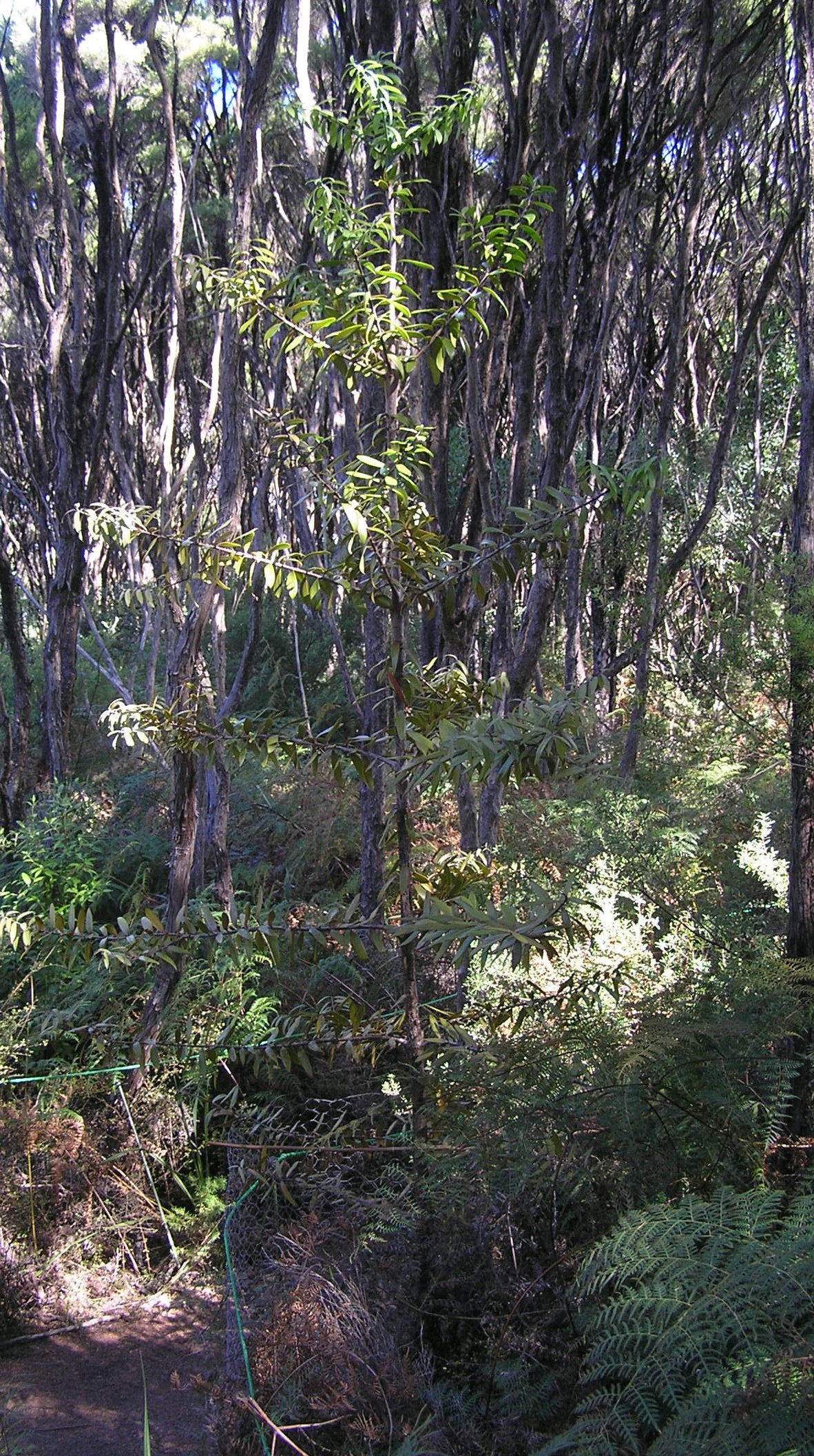 Young kauri (Agathis australis) at Gumdiggers Park (Waiharara, near Kaitaia, Northland, New Zealand). Author: Mr. Tickle Date: March 29th, 2005